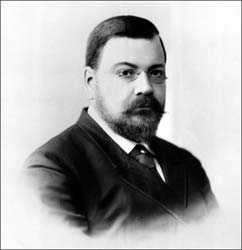 category:Nikolay Sultanov (1850-1907), architect